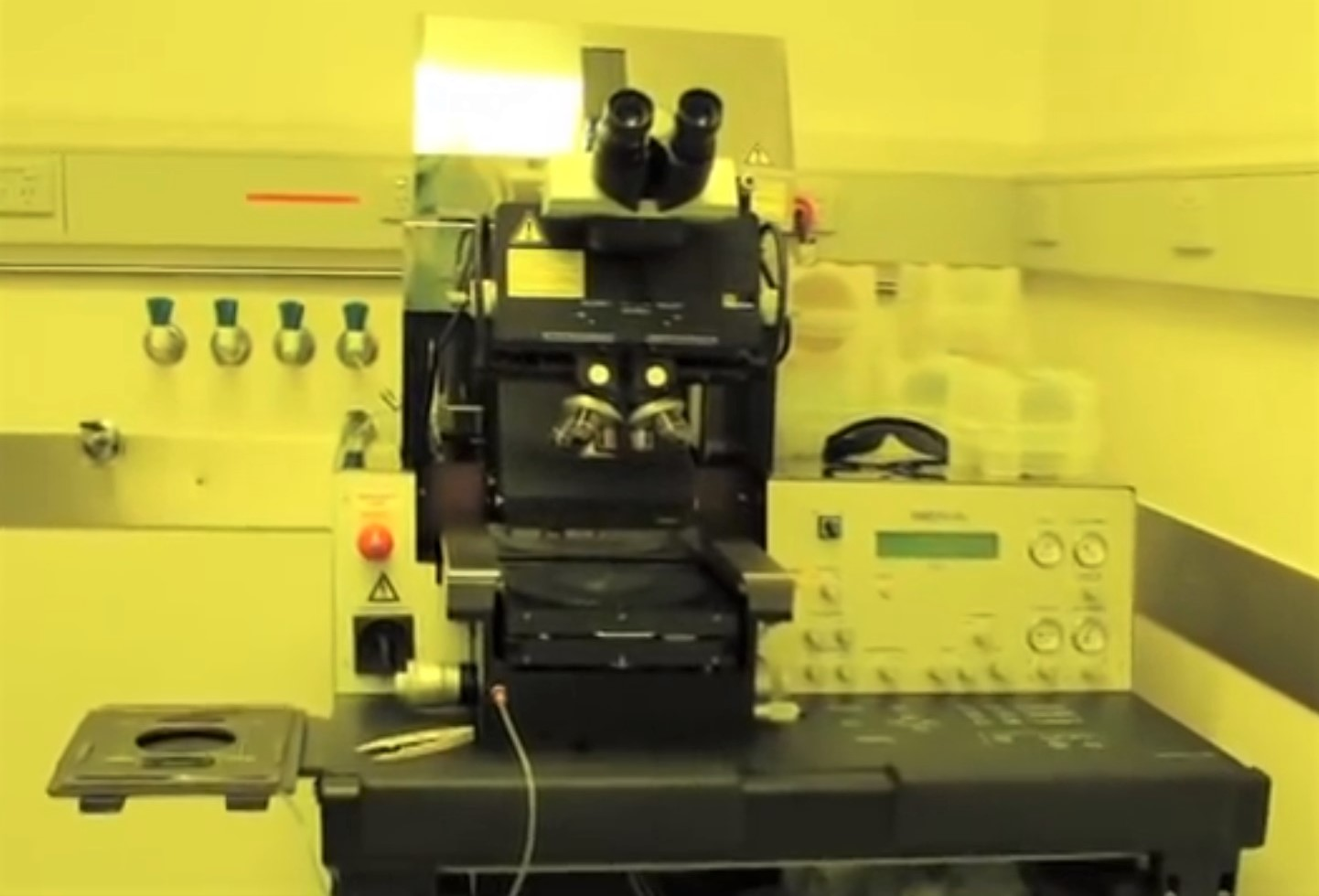 SÜSS MicroTec MA6 Mask Aligner. Photolithography 4/4 How to do ultraviolet photolithography in the clean room. RMIT MicroNanophysics Research Laboratory/MicroNano Research Facility. For the latest